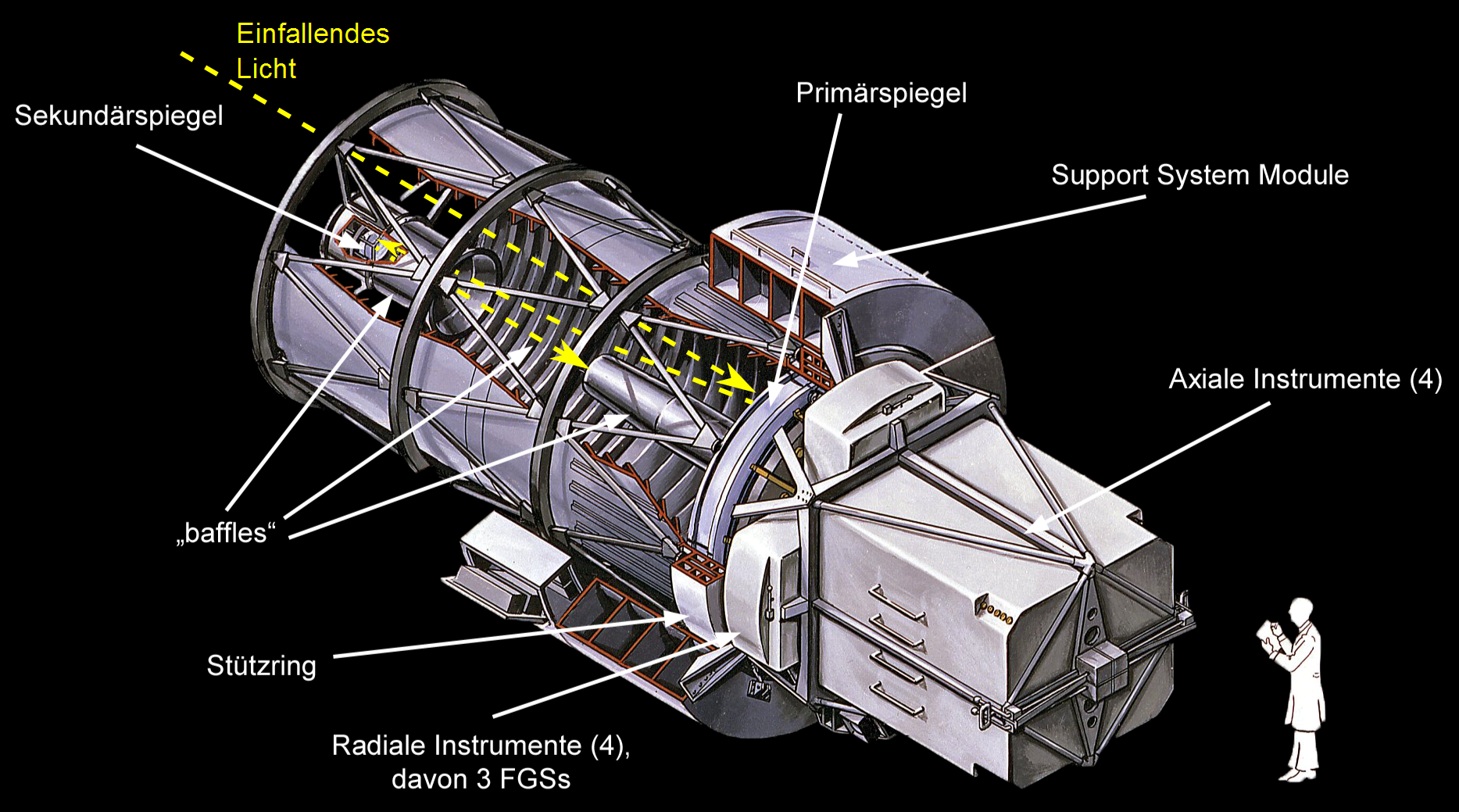 OTA components and light travel (german). Based on PD image by NASA